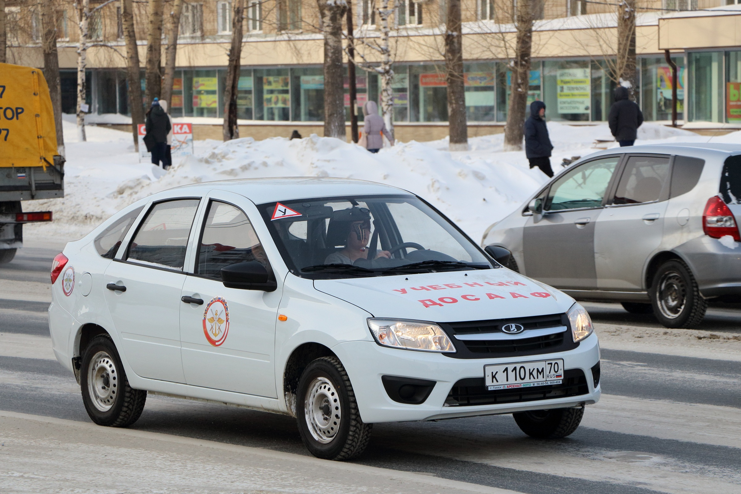 Lada Granta driving school car in Tomsk, Russia